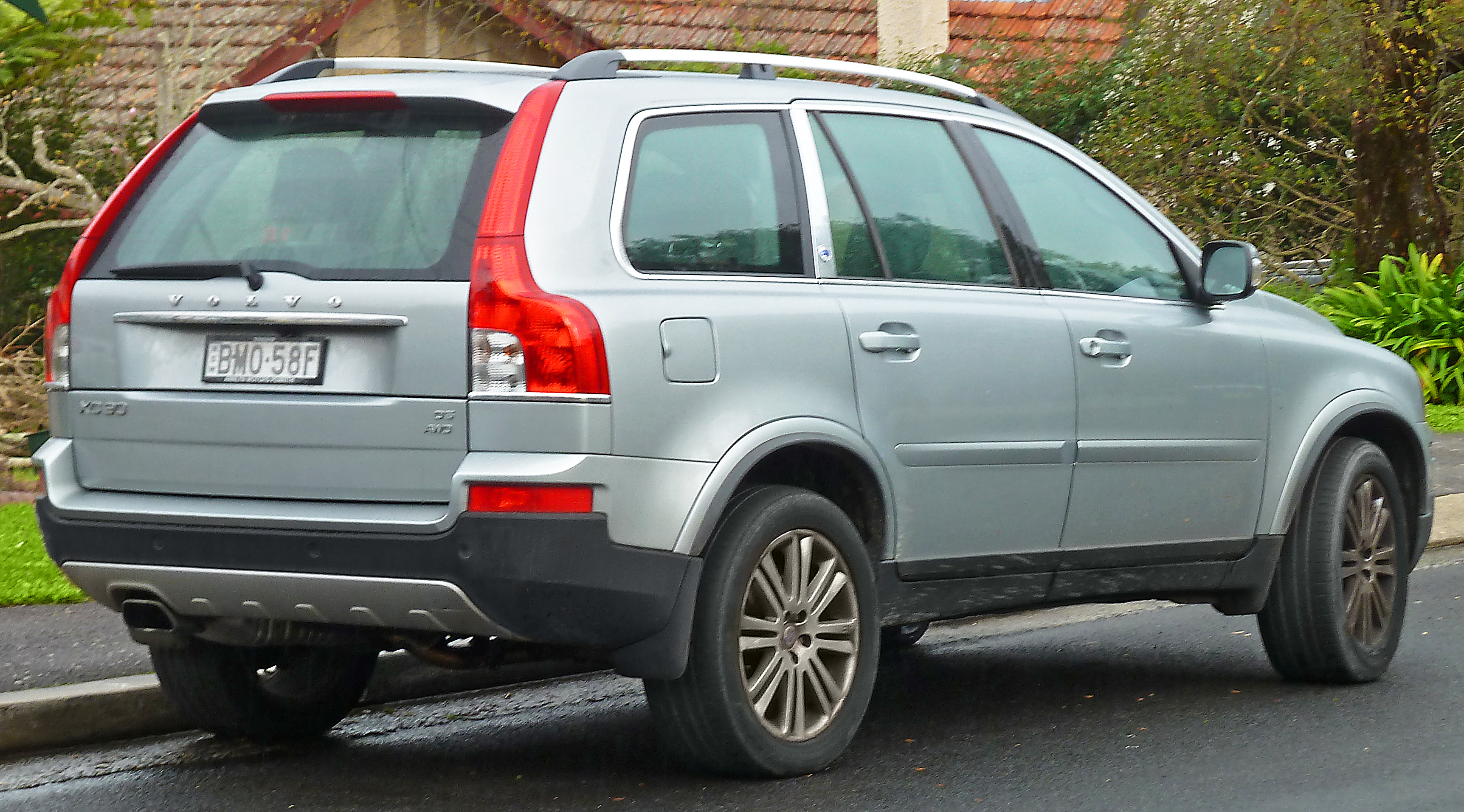 2009 Volvo XC90 (P28 MY09) D5 wagon. Photographed in Roseville, New South Wales, Australia.